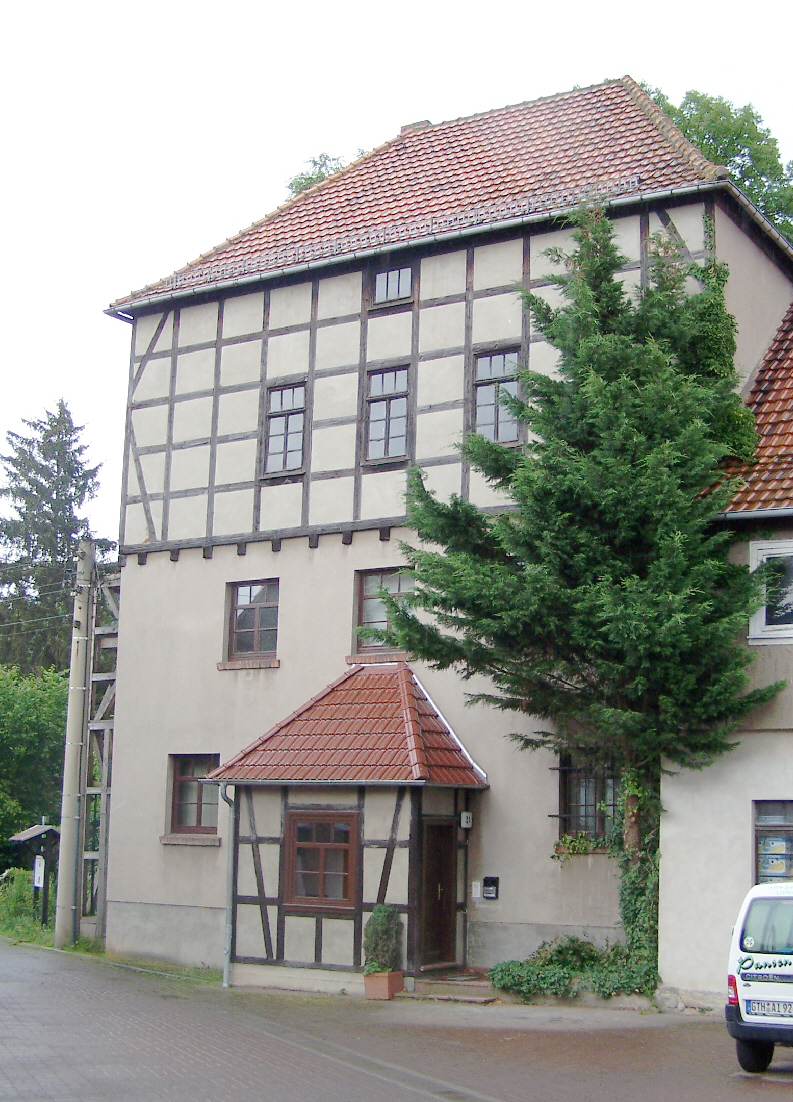 The main building of the Untermühle mill in Neudietendorf.